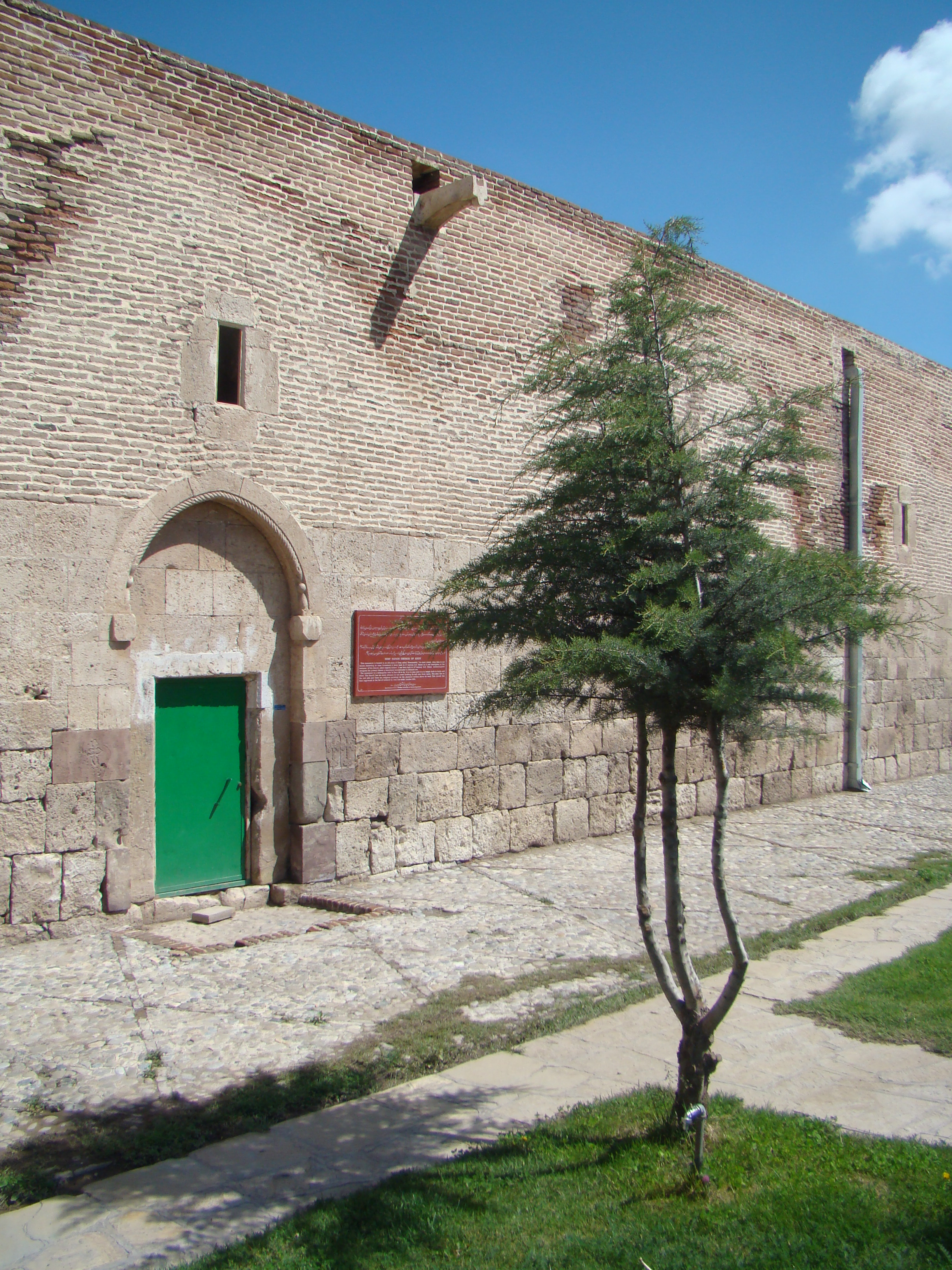 Sorp SerKis Church in Khoy - West Azerbaijan.